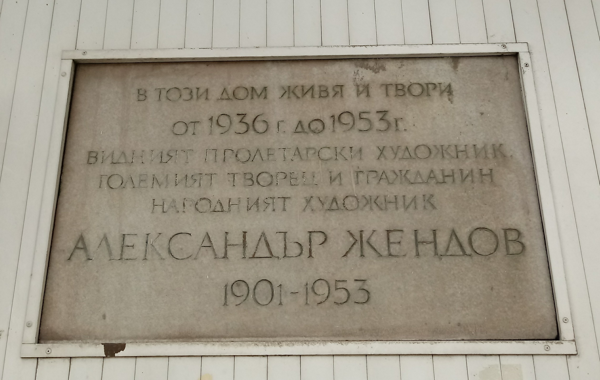 Aleksandar Zhendov memorial plaque, 27 Patriarch Evtimiy Blvd., Sofia